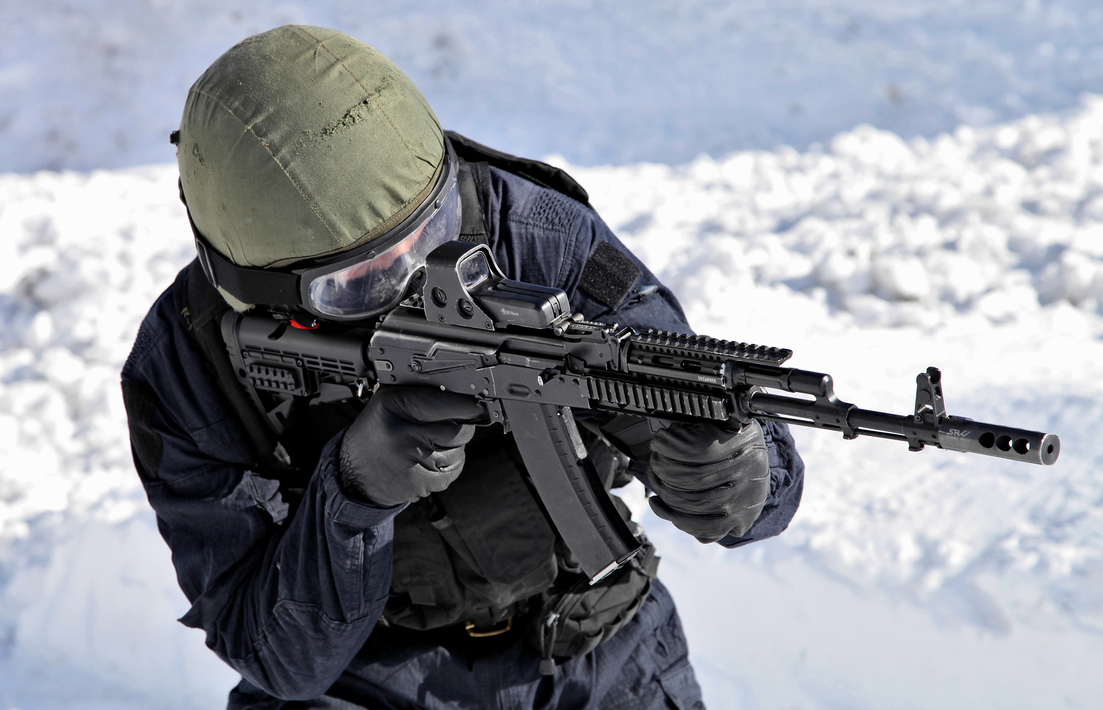 Internal troops special units counter-terror tactical exercises